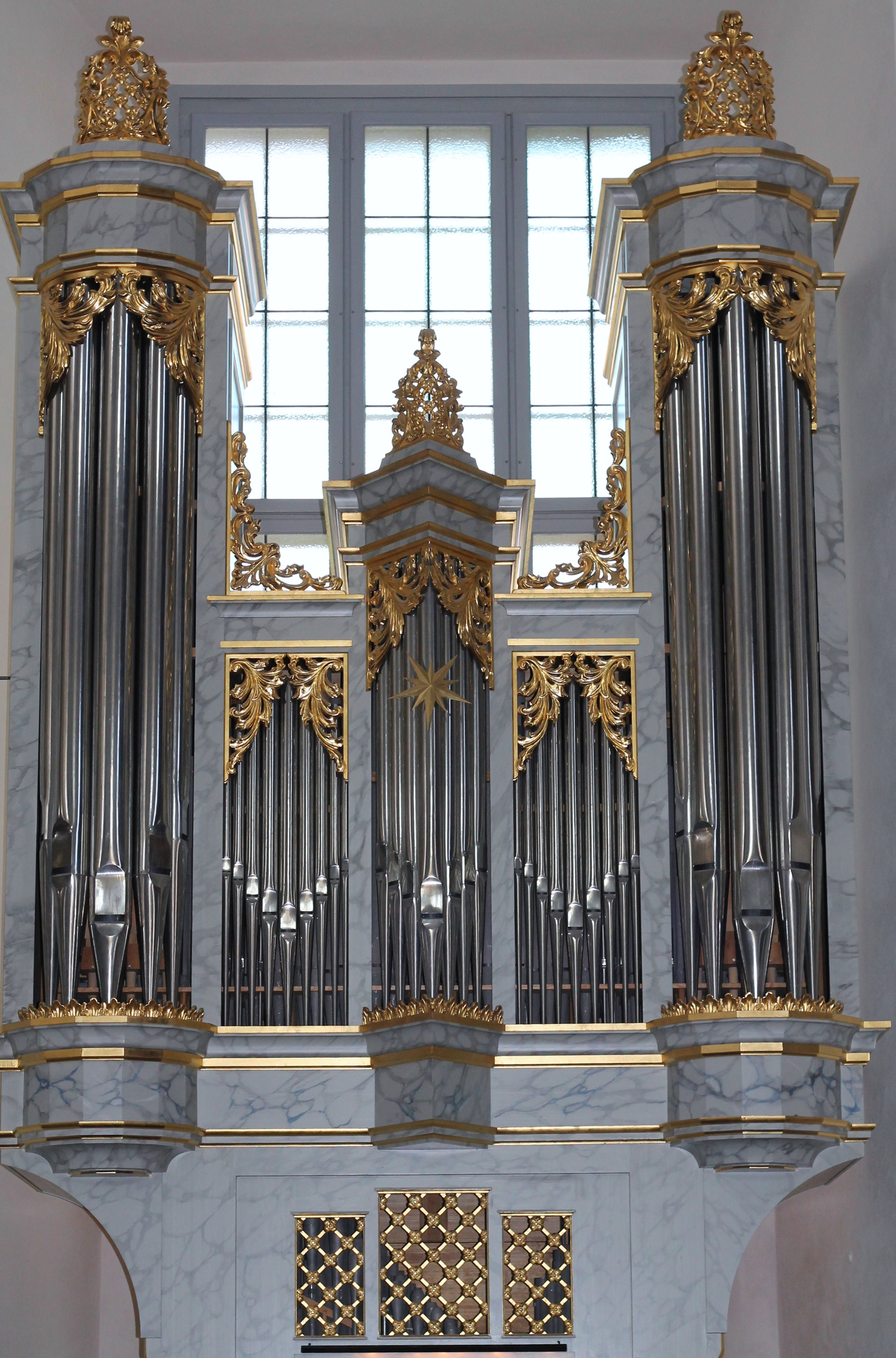 Kalmar Cathedral. Chancel organ.